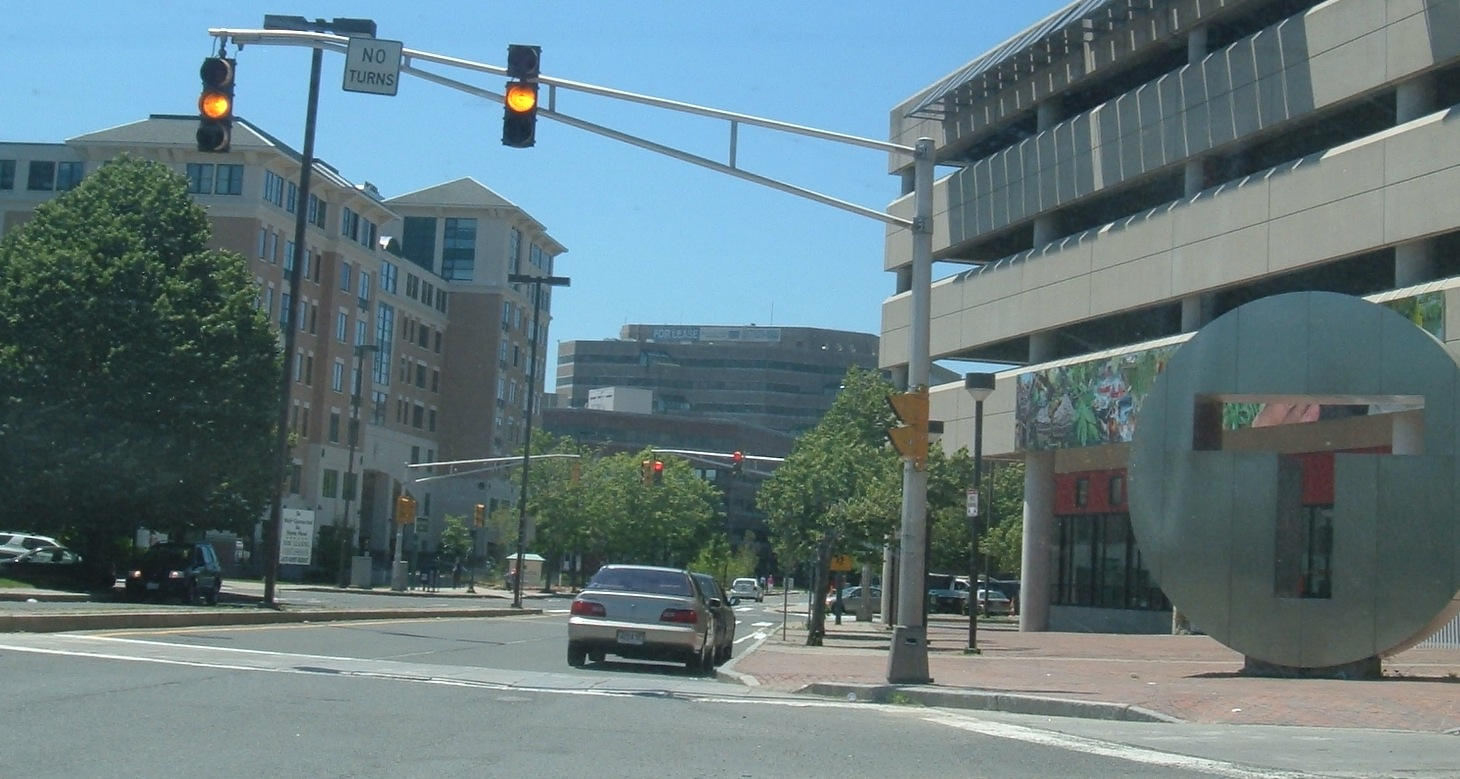 New development near Alewife station (right) in 2005